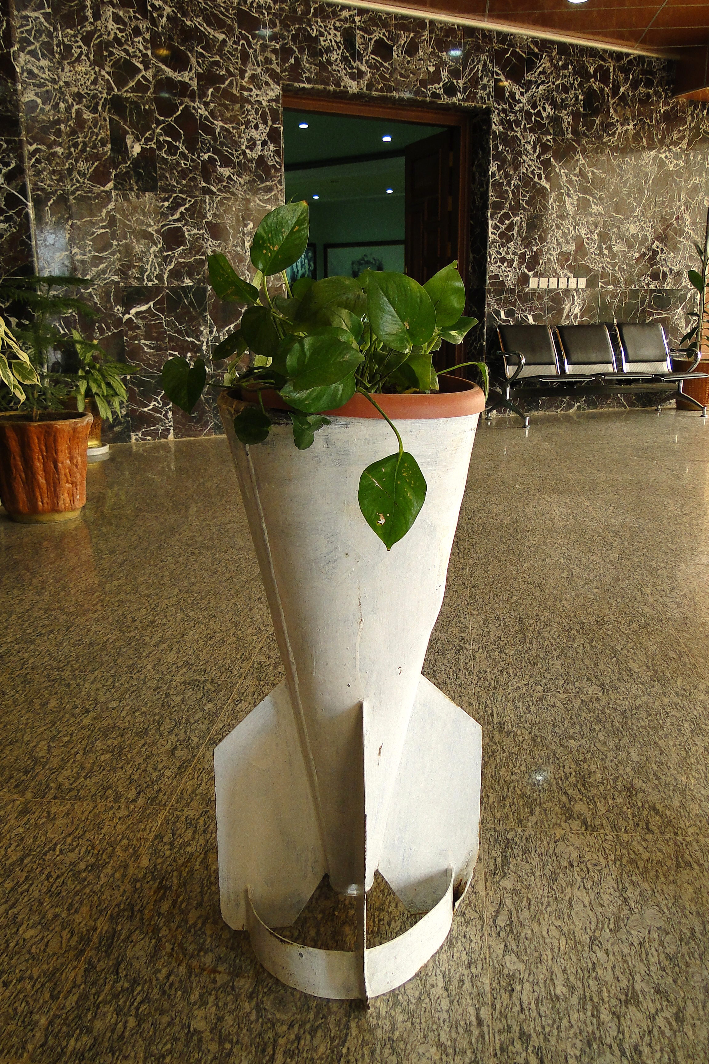 Original Bomb Casing Used as Flower Pot - Halabja Memorial - Halabja - Kurdistan - Iraq